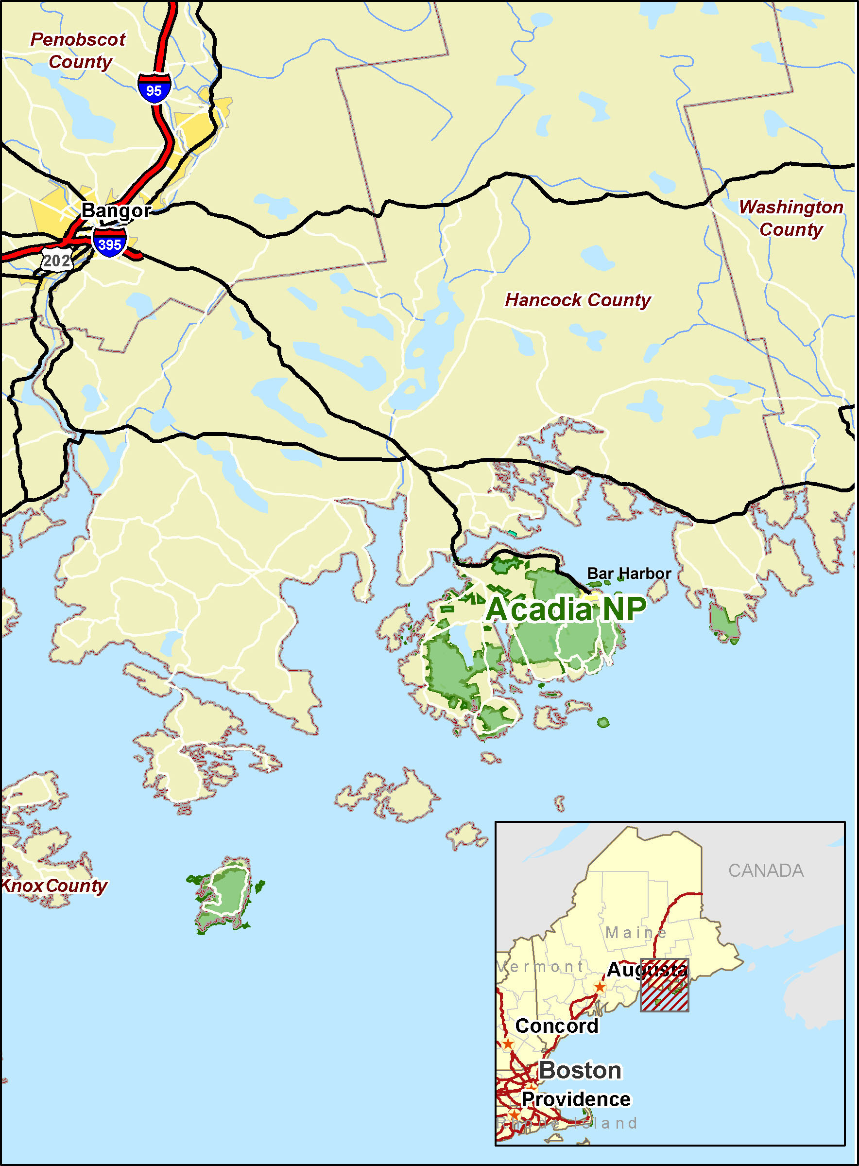 Acadian National Park (Maine) regional-scale map. Created by Kmf164.